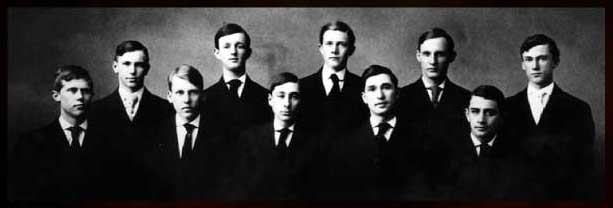 The original brothers of the Seal and Serpent Society.